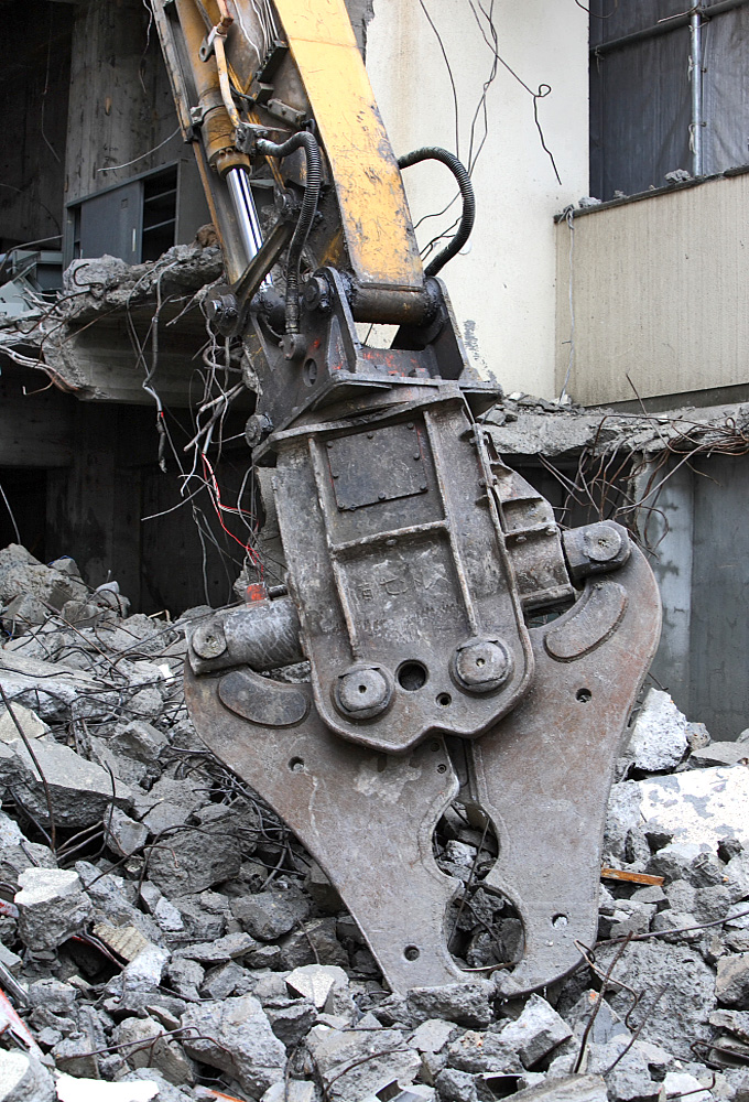 A hydraulic crusher attachment of excavator